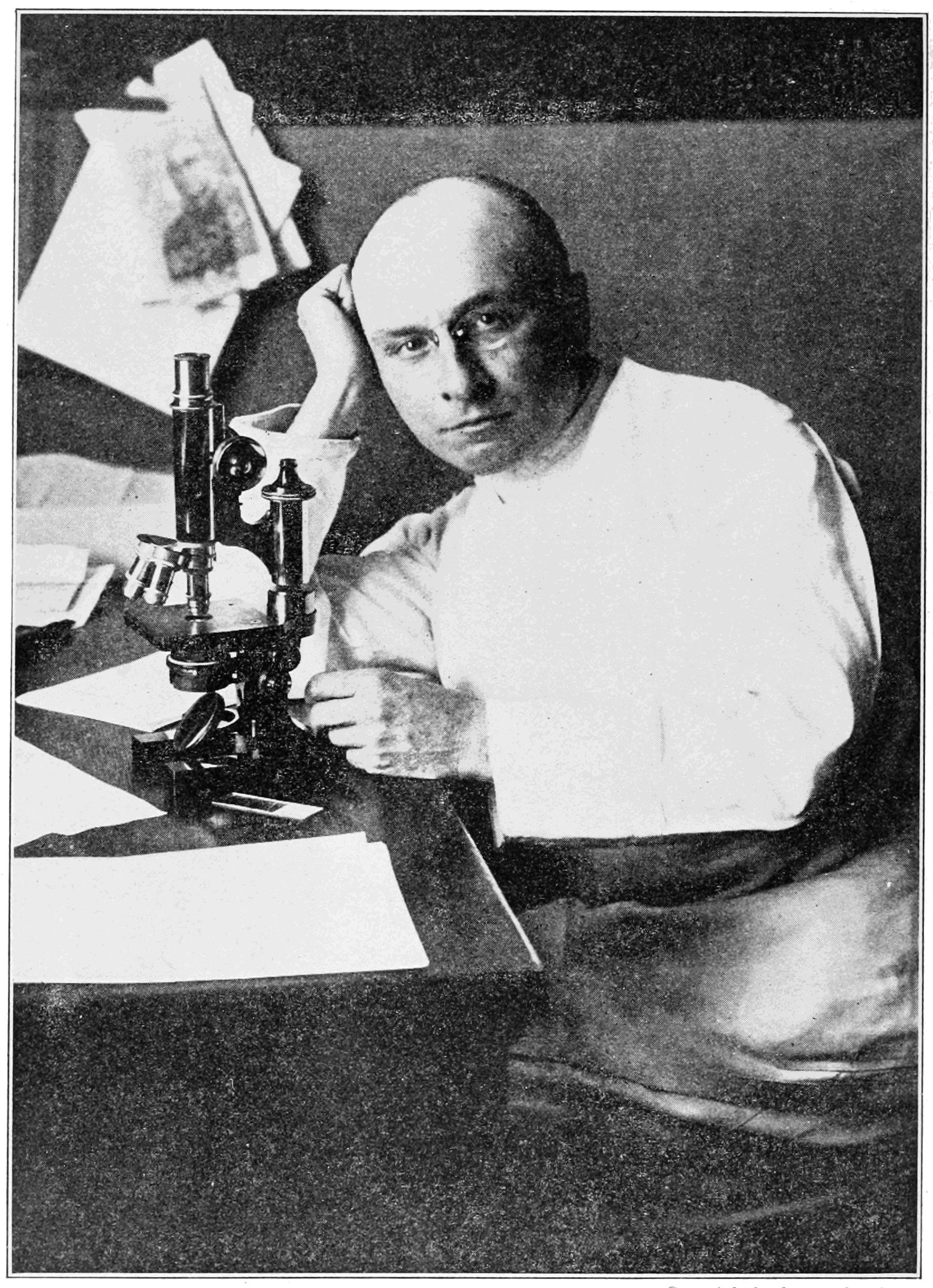 Alexis Carrel